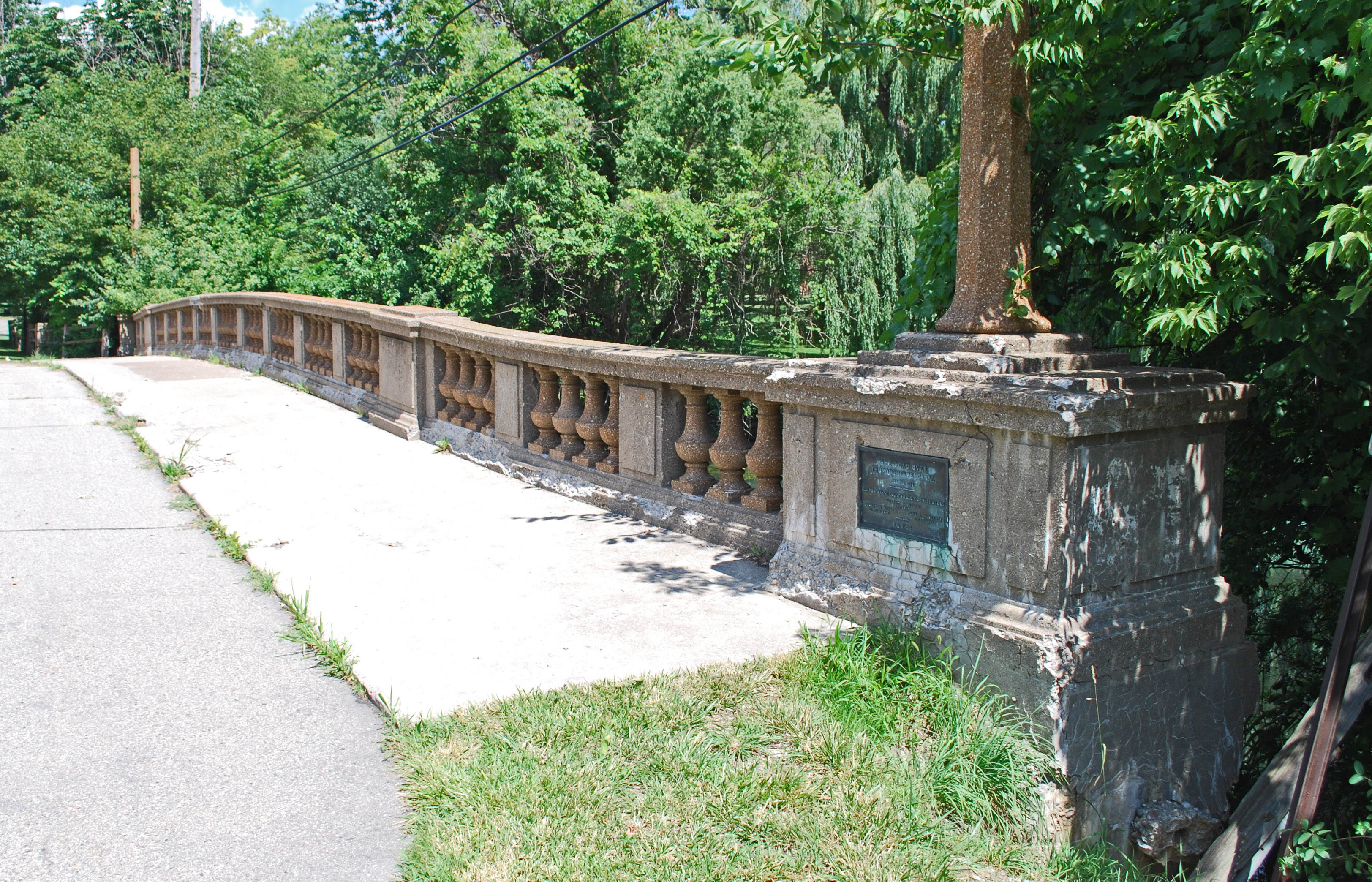 Deck and east side of Park Ln - Thorofare Canal Bridge, Grosse Ile MI